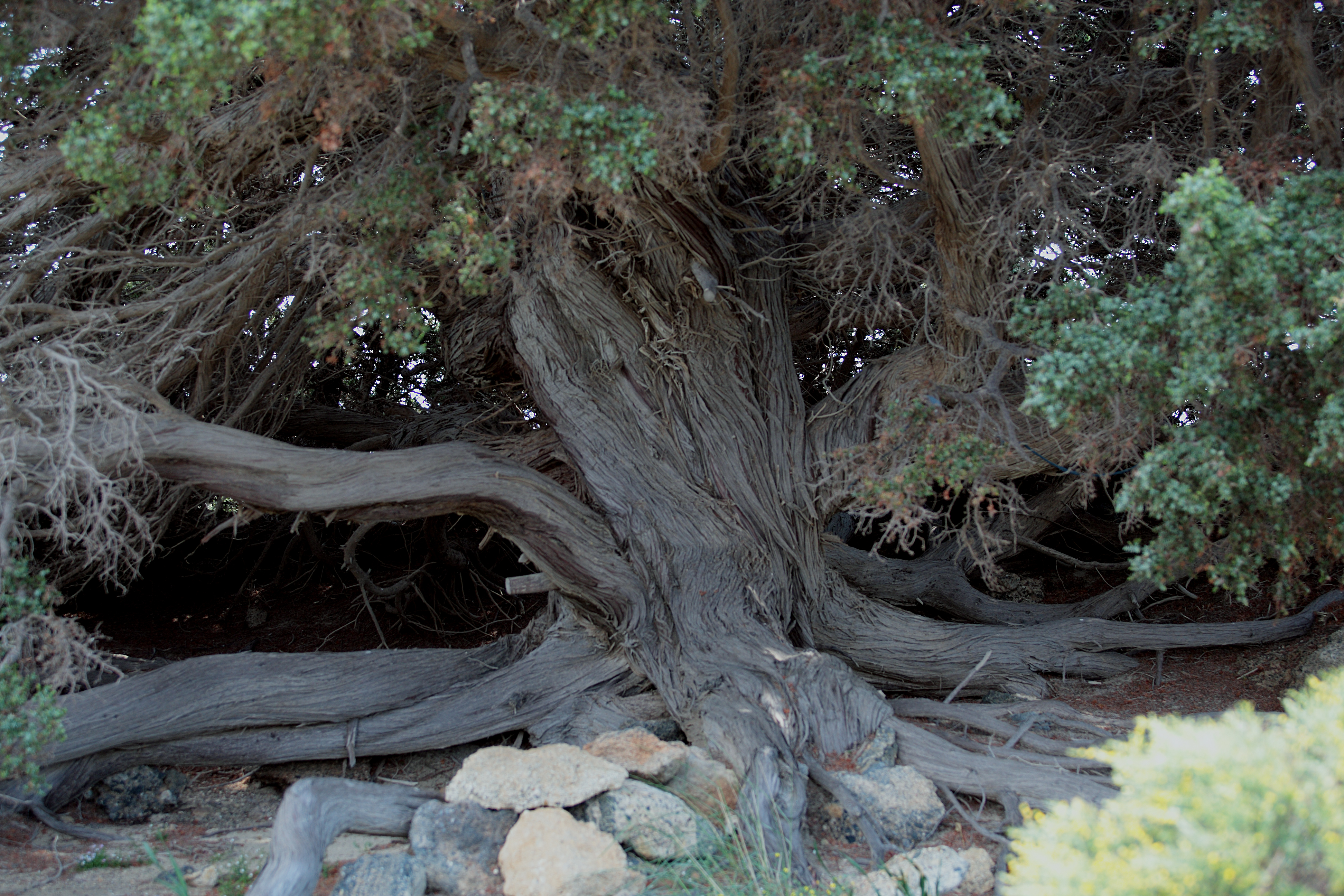 Juniperus macrocarpa, Elafonisi, Crete